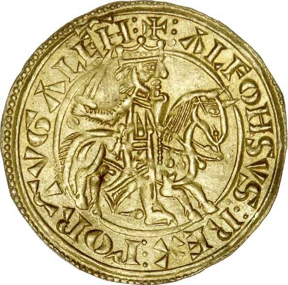 Description avers : Le roi barbu à droite sur un cheval, en armure, couronné, tenant une épée de la main droite et un bouclier de la main gauche . Traduction avers : (Alphonse, roi du Portugal) . Description revers : Cinq écus du Portugal formant une croix, cantonnée au 1 de AL, aux 2, 3 et 4 d’une étoile à huit rais . Traduction revers : (Au nom du père, du fils et du saint Esprit, je crois en Dieu) .